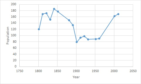 Total population of Easton Civil Parish, Cambridgeshire, as reported by the Census of population from 1801 to 2011.